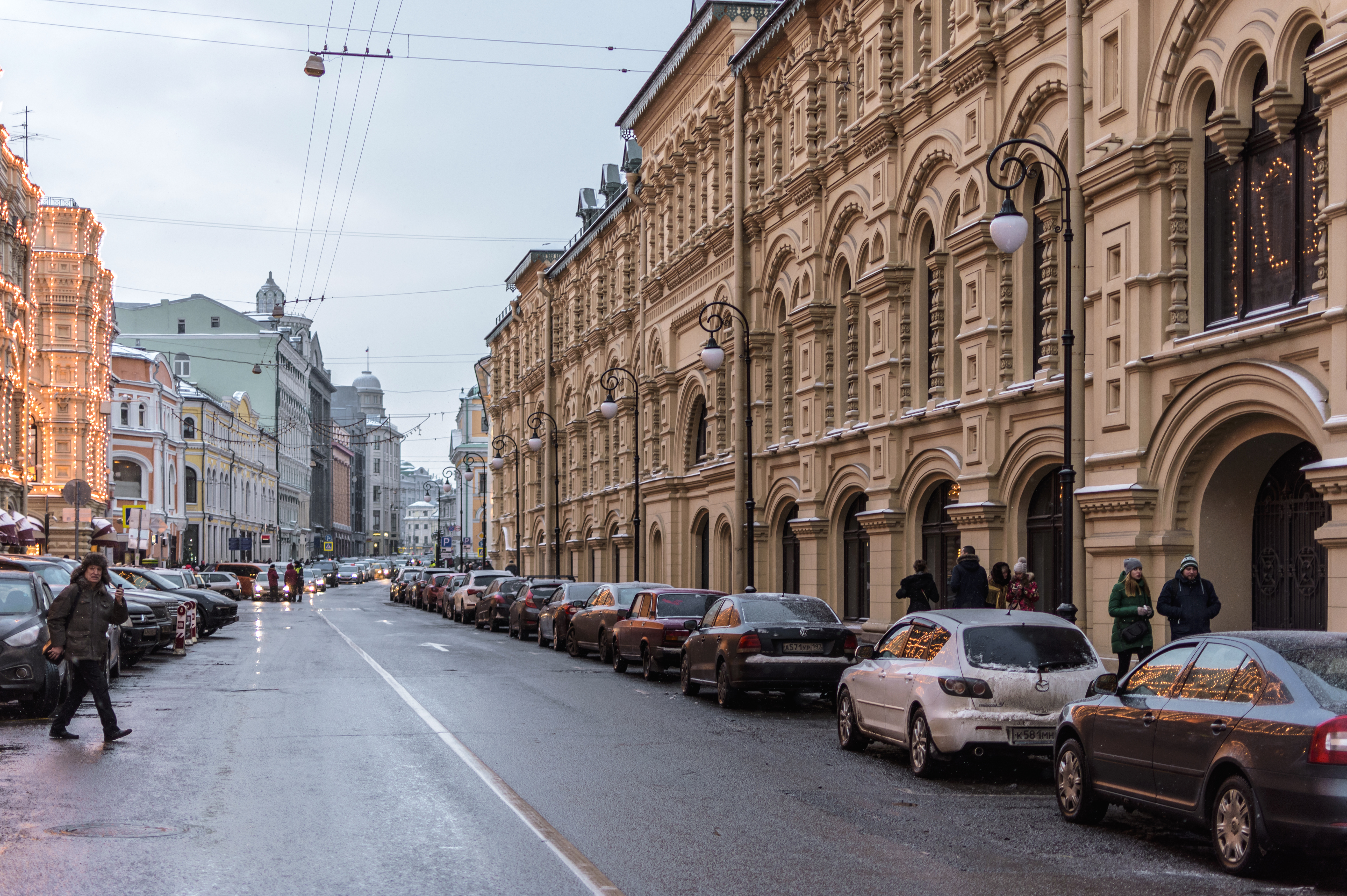 Ilyinka Street in Moscow